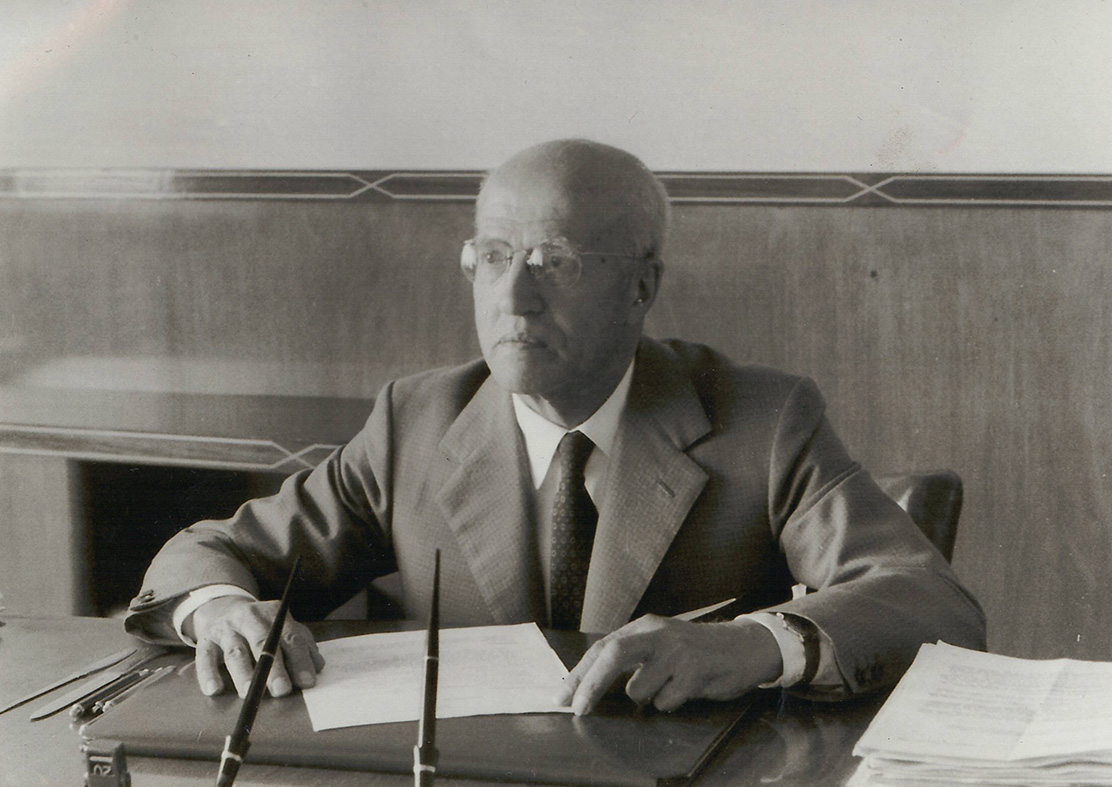 Domenico Taccone Studio